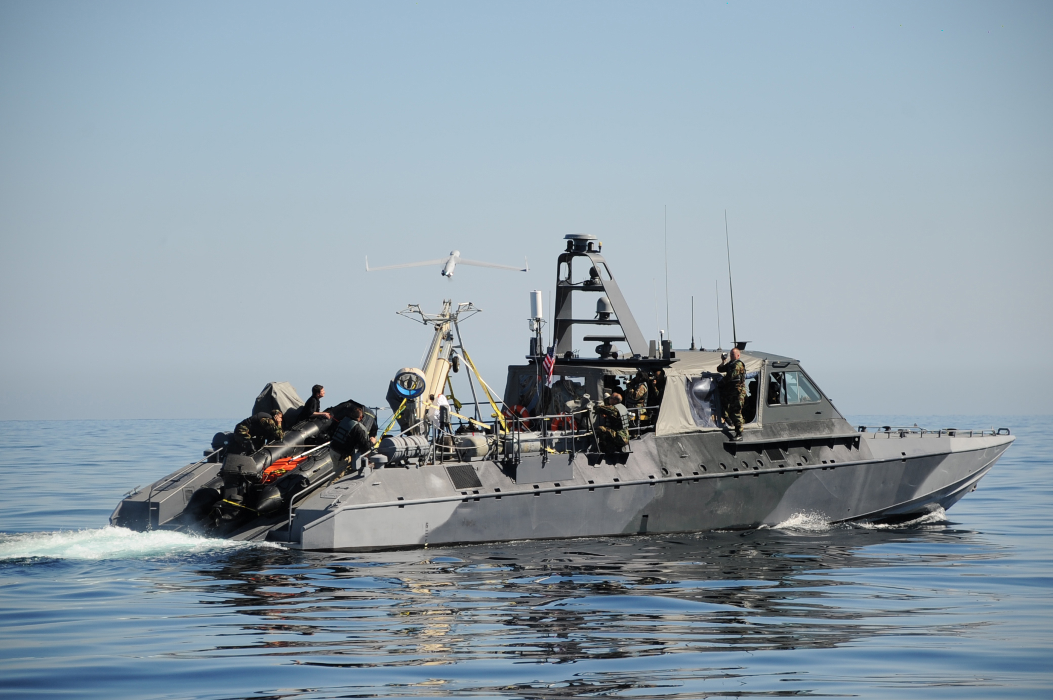 SAN CLEMENTE ISLAND, Calif. (Feb. 7, 2008) A Scan Eagle unmanned aerial vehicle is launched from a MK V naval special warfare boat off the coast of San Clemente Island. This is the first time a Scan Eagle, used for various applications such as intelligence gathering and battle damage assessment, has been launched from this kind of platform.